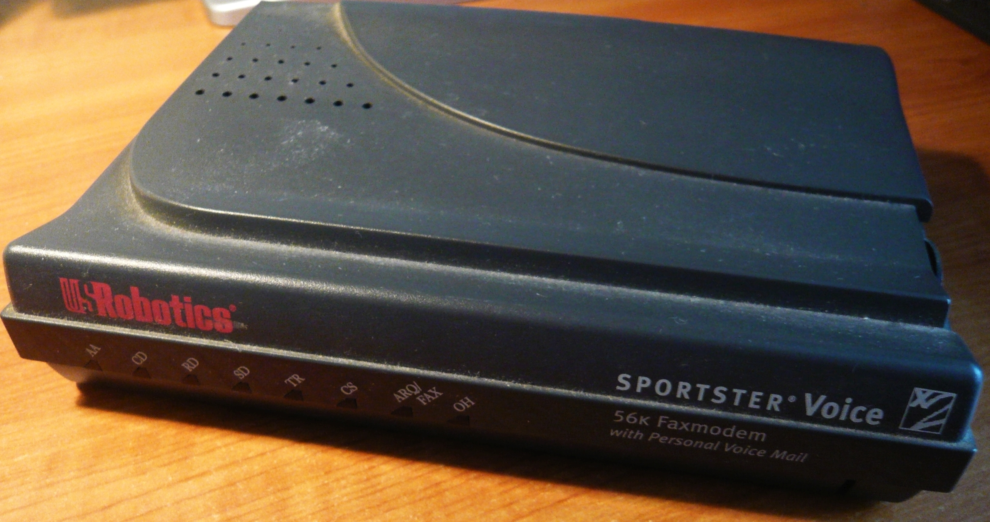 Front side of US Robotics 56K Modem